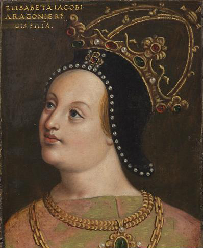 Isabella of Aragon, Queen of Germany